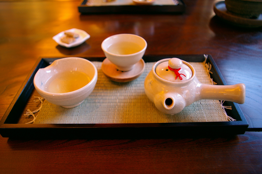 A tea house in Insadong, Seoul, South Korea